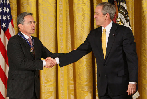 President George W. Bush congratulates President Álvaro Uribe of Colombia after presenting him with the 2009 Presidential Medal of Freedom. The Presidential Medal of Freedom is a decoration bestowed by the President of the United States and is along with the equivalent Congressional Gold Medal the highest civilian award in the United States.